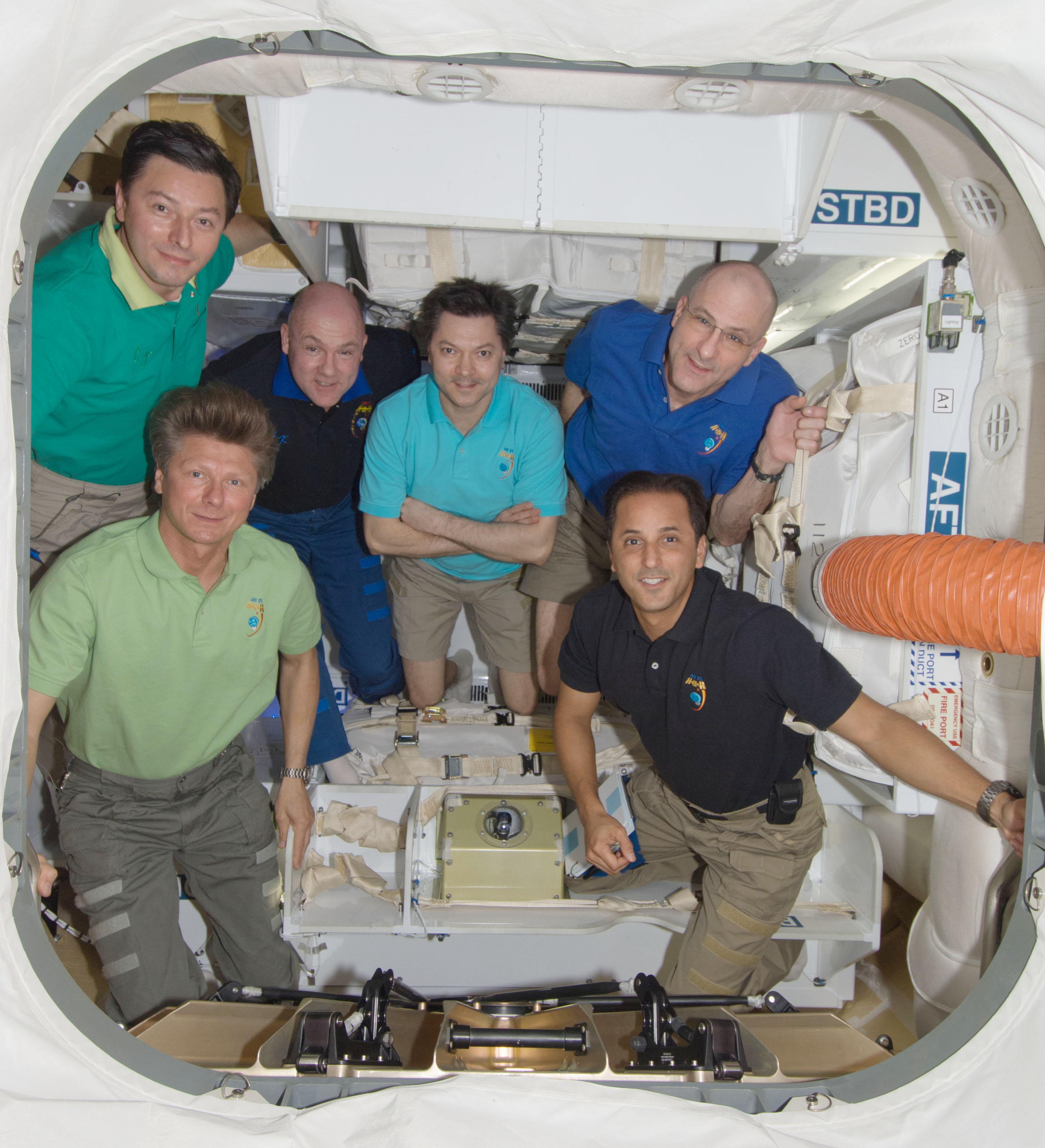 ISS031-E-078299 (29 May 2012) --- Expedition 31 crew members pose for an in-flight crew portrait inside the SpaceX Dragon cargo craft currently attached to the International Space Station. Pictured clockwise (from the left) are Russian cosmonauts Gennady Padalka and Sergei Revin, European Space Agency astronaut Andre Kuipers, all flight engineers; Russian cosmonaut Oleg Kononenko, commander; NASA astronauts Don Pettit and Joe Acaba, both flight engineers. The SpaceX Falcon 9 and its Dragon spacecraft launched at 3:44 a.m. (EDT) on May 22. This mission is a demonstration flight by Space Exploration Technologies, or SpaceX, as part of its contract with NASA to have private companies launch cargo safely to the International Space Station.